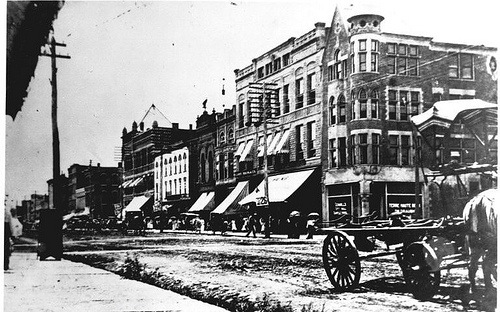 Street scene of Peru, Indiana, birthplace of songwriter Cole Porter. Image courtesy of the Yale University Manuscripts & Archives Digital Images Database, Yale University, New Haven, Connecticut. Retouched by MarmadukePercy.